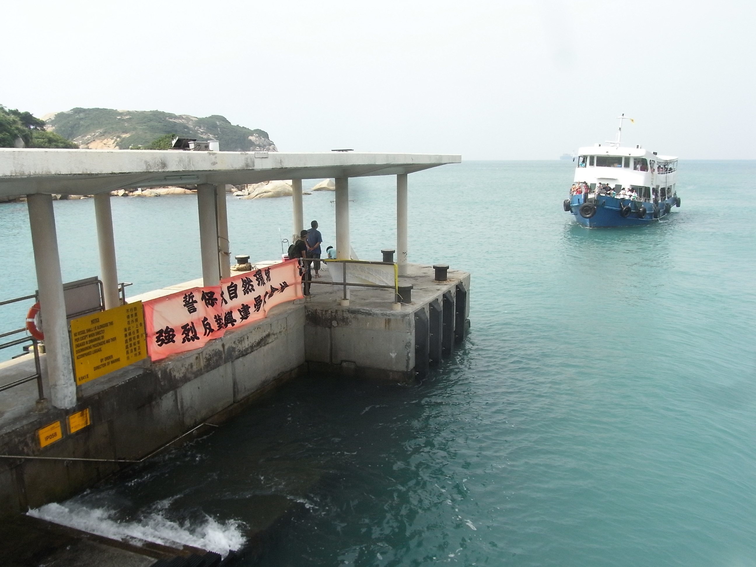 香港離島|蒲台島, Po Toi Island, Hong Kong